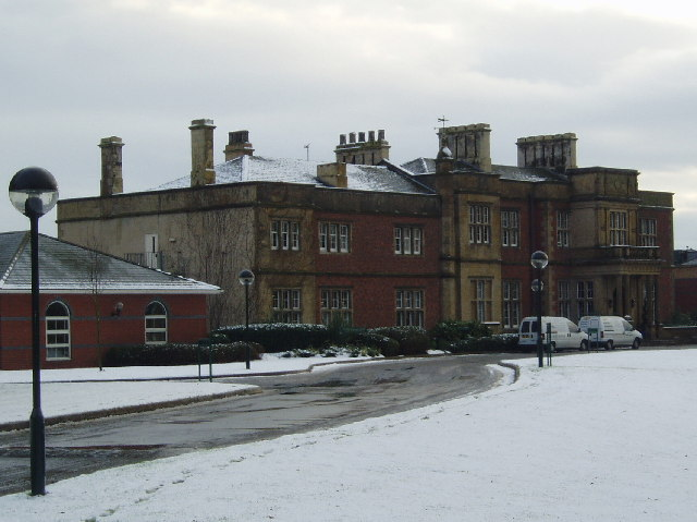 Cranage Hall. A former private residence, it is now much extended for conference and leisure facilities